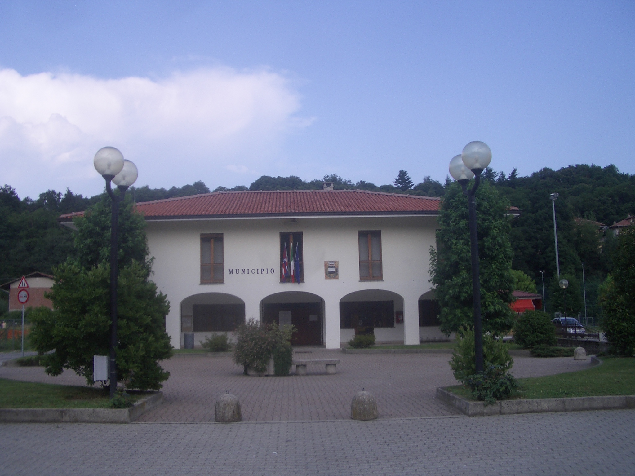 Baldissero Canavese, the Town Hall